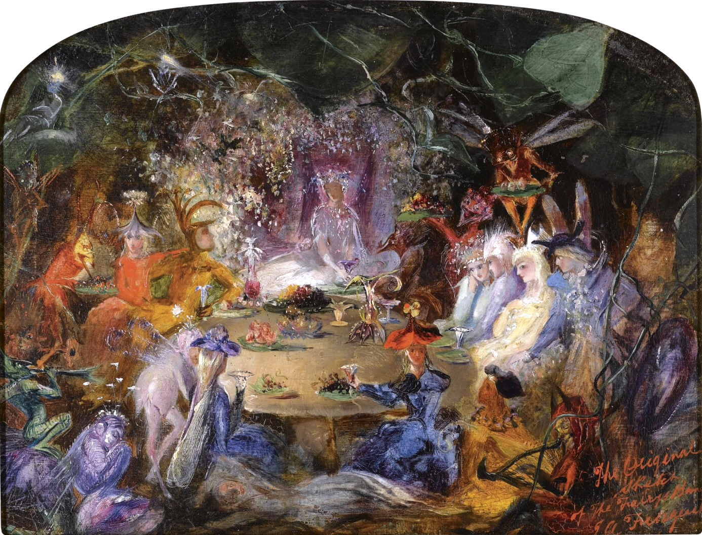 "The Fairies' Banquet" - "Many of the collections of fairy mythology published earlier in the 19th century include reported sightings of fairies banqueting and accounts of humans eating fairy food. The narcotic purple convolvulus may indicate that the food is not good for humans to eat. The message of this flower can be 'sleep' or 'death'. The cult of the miniature originated in 17th century poetry, but there is evidence that Fitzgerald gleaned inspiration from books of fairy lore and myth, particularly in his familiarity with popular superstitions. Like the Scottish artist Noel Paton, he may have appreciated, or benefited from, the rich heritage of Celtic myth that investigation into folklore had uncovered." - Copied from